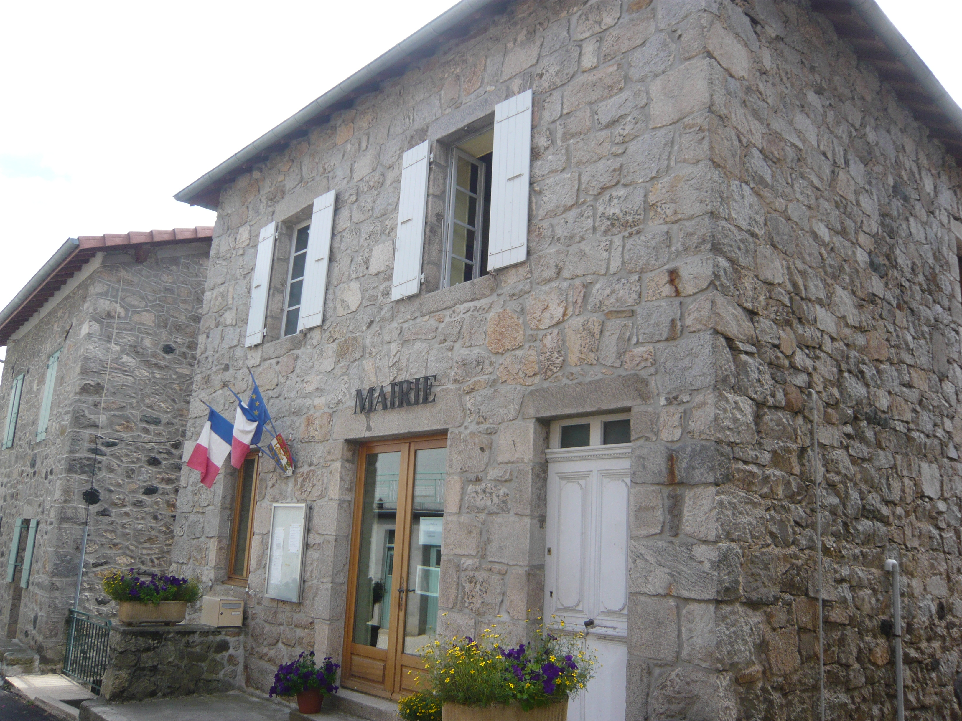 The town hall of Lachapelle-sous-Chanéac (Ardèche, France) - July 2010